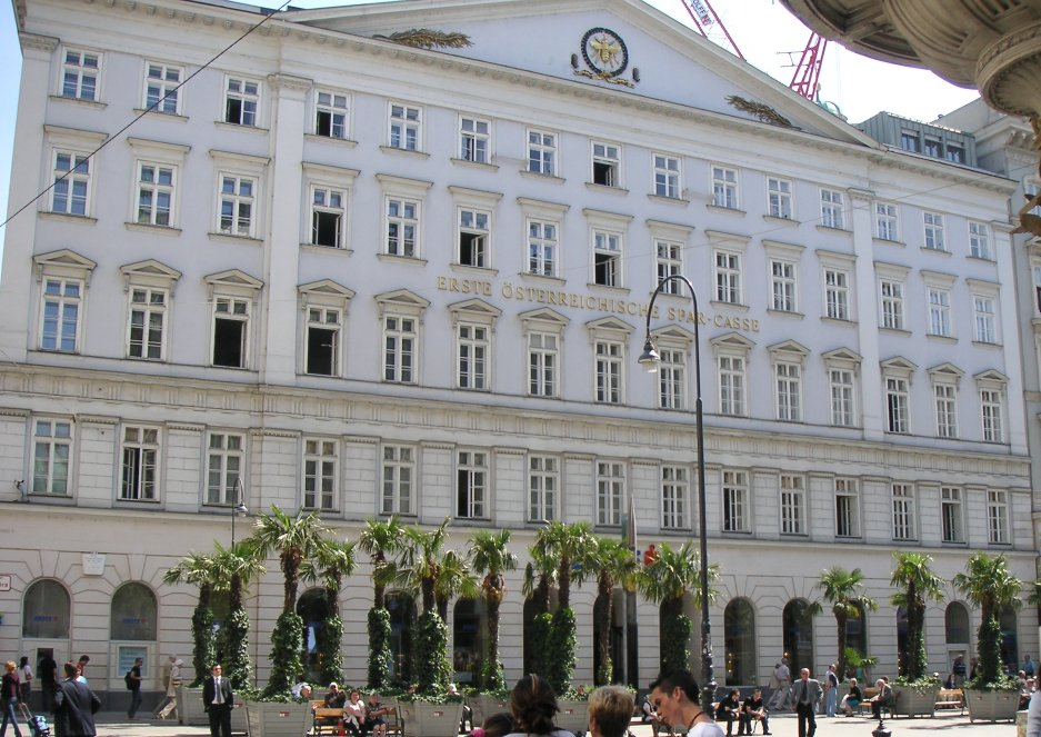 Headquarters of the bank Erste Bank, in Vienna